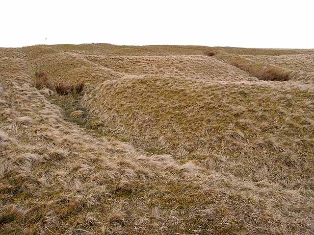 Roman remains at Chew Green There is a complex set of overlapping Roman earthworks of varying date at Chew Green comprising remains of a fort, two fortlets and two marching camps. Immediately adjacent to the Pennine Way.